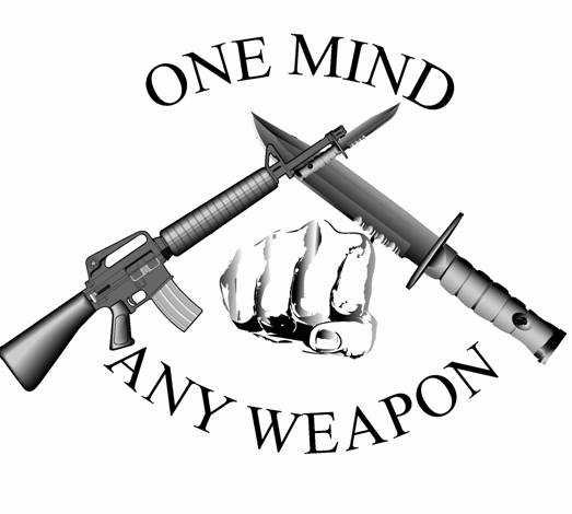 Marine Corps Martial Arts Program Insignia